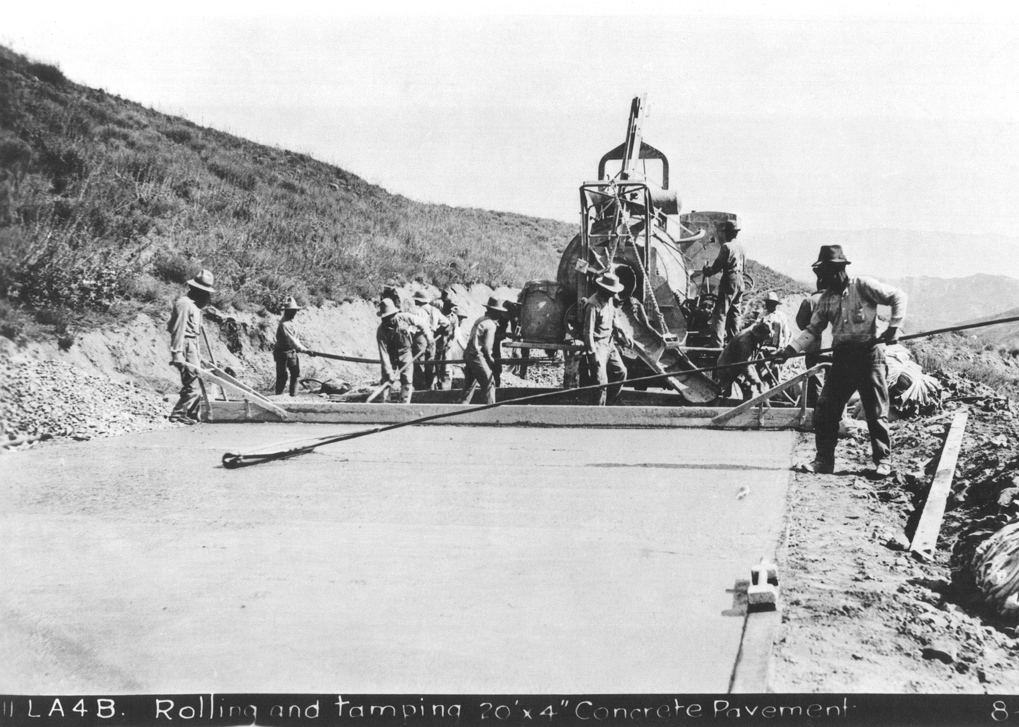 On August 18, 1915, pioneer highway engineers are rolling and tamping (leveling) concrete pavement on the original Ridge Route.